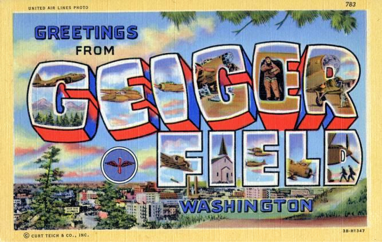 Army Air Forces - Postcard - Geiger Field Washington